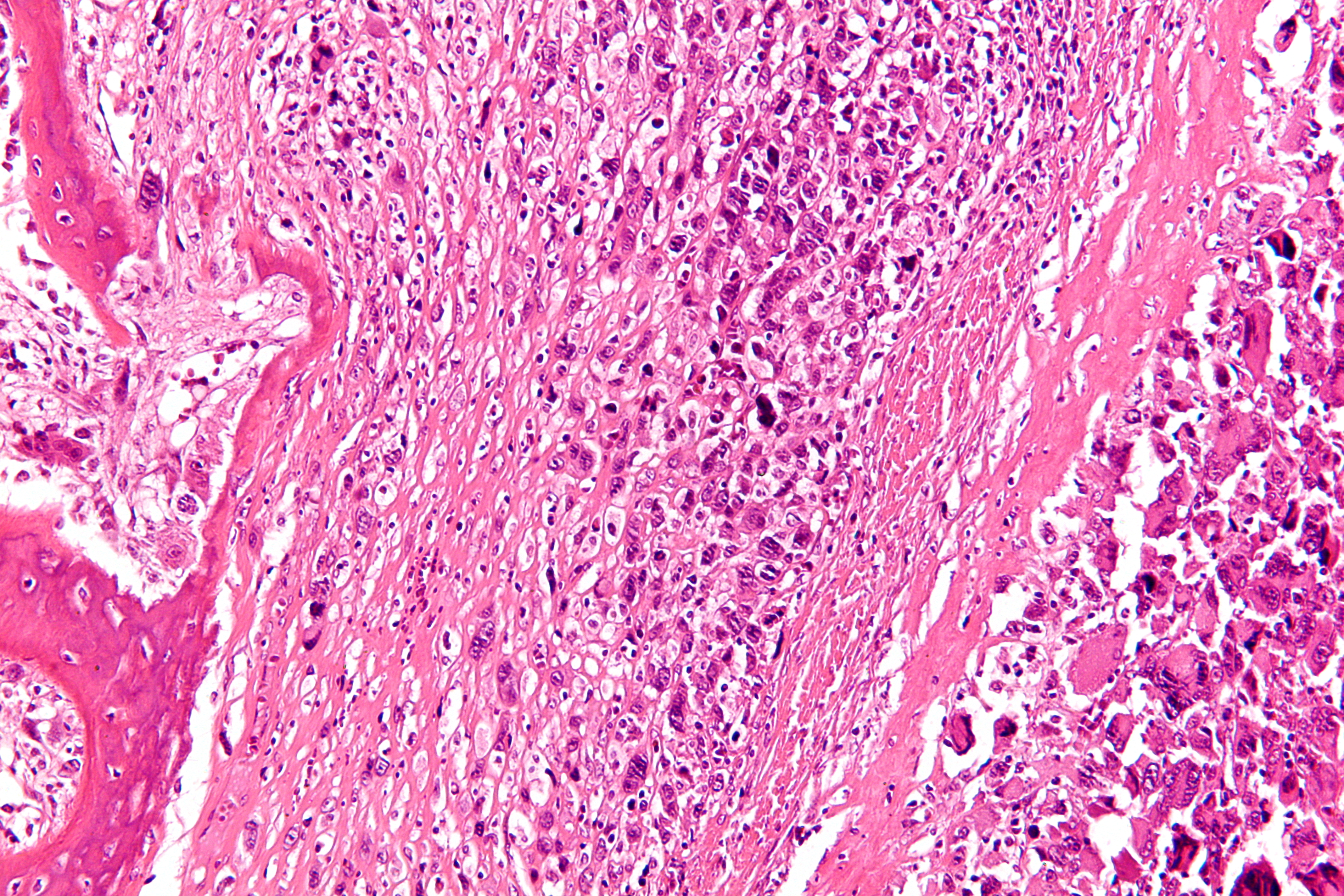 High magnification micrograph of a high-grade osteosarcoma. H&E stain. By definition, osteosarcomas form osteoid (the organic extracellular component of bone), which is pink, bland/homogenous on H&E staining. Related images Low mag. Intermed. mag. High mag. Very high mag.